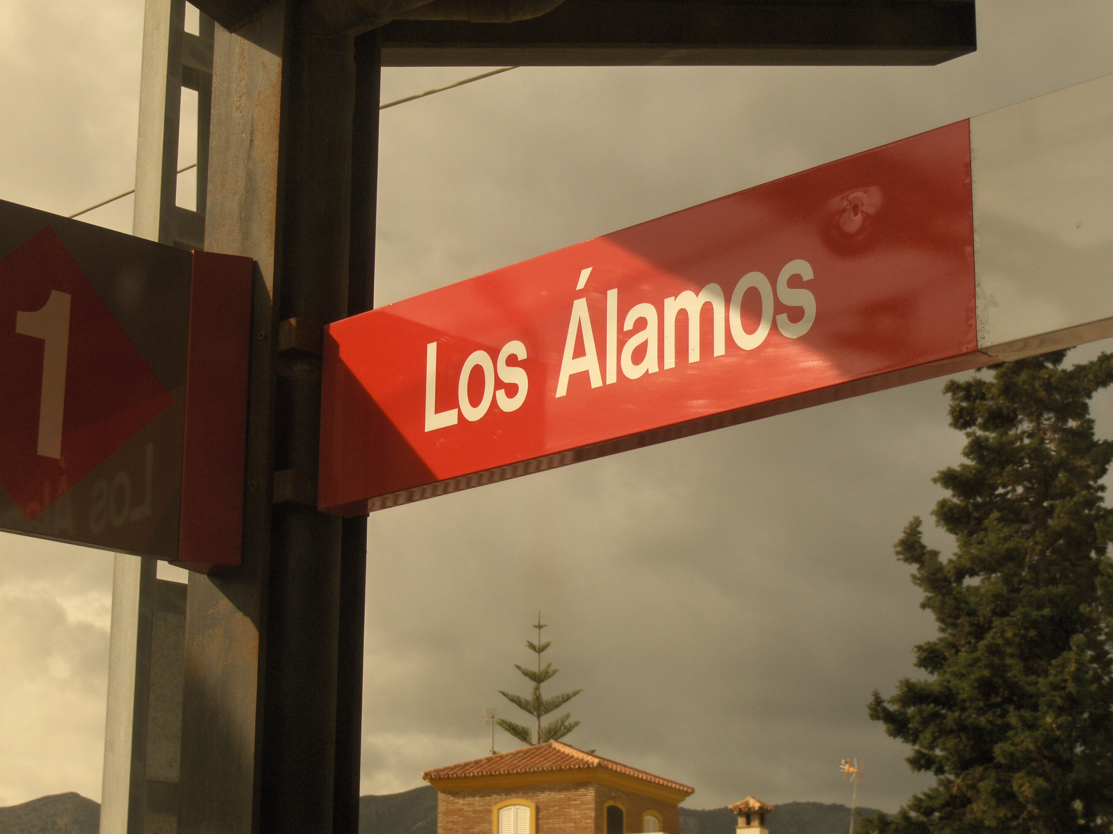 Los Álamos Station (Cercanías Málaga), in Torremolinos